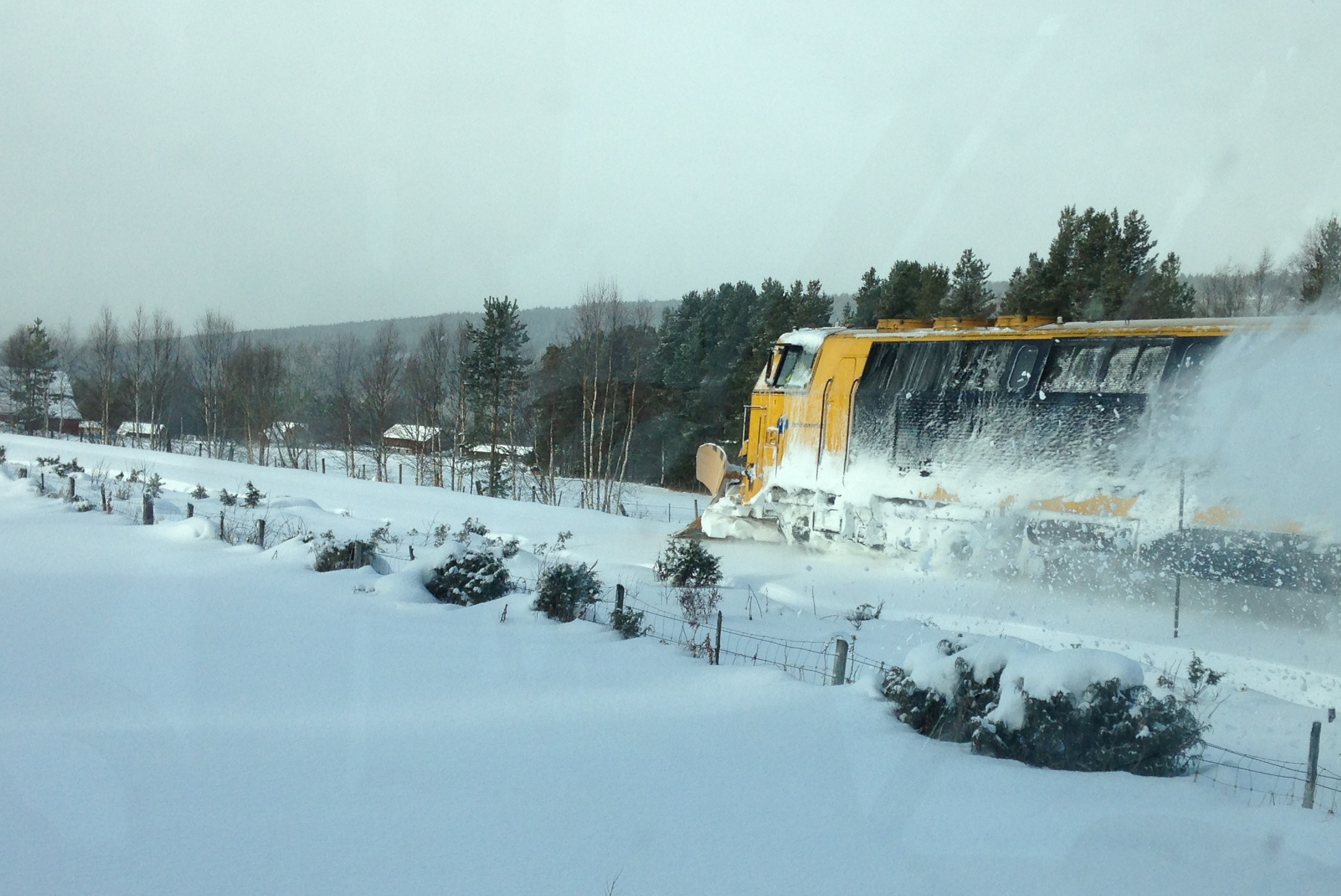 Norwegian National Rail Administration MZ 1415 ploughing snow, Rørosbanen